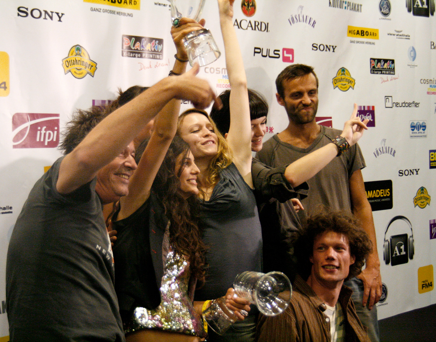 Anna F. at the Amadeus Austrian Music Award 2010 (Wiener Stadthalle, Vienna, Austria)